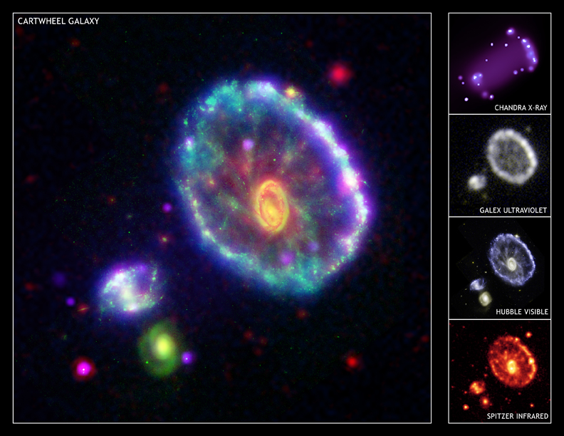 The Cartwheel Galaxy in different Spectrums